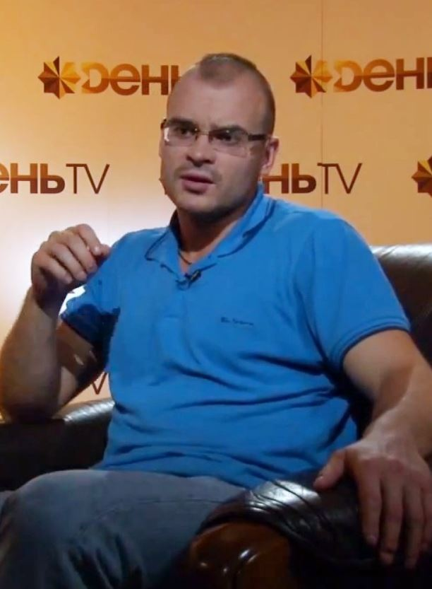 nationalist Maxim Martsinkevich educates young fans of extremism about the features of prison life. Moscow, September 27, 2012.